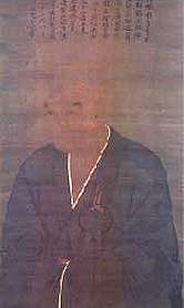 Andō Renshō, Kumeda-dera, Kishiwada, Osaka, Japan